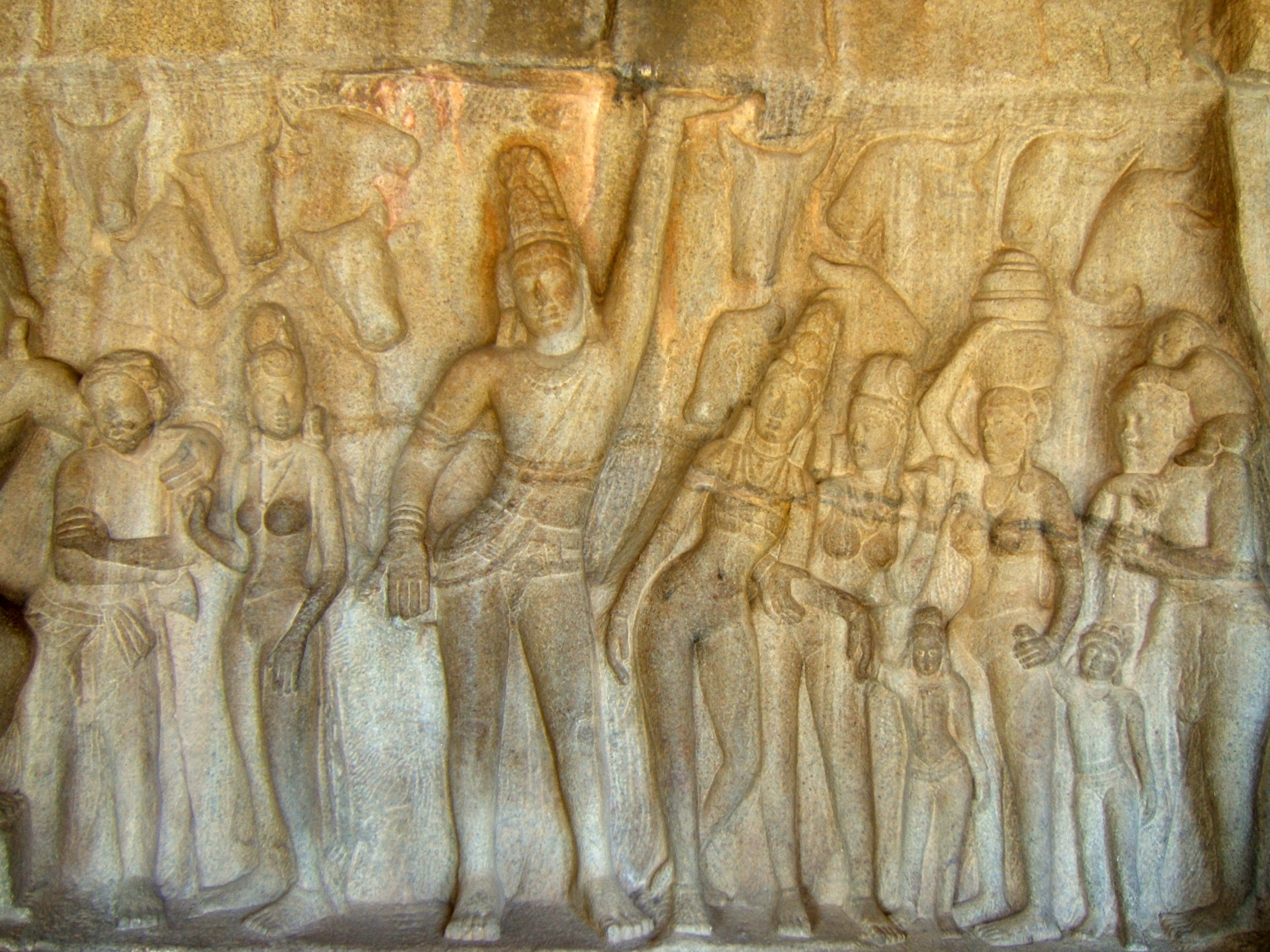 Krishna lifting Govardhan Hill (Bas relief 7th century AD in Mahabalipuram, Tami Nadu)